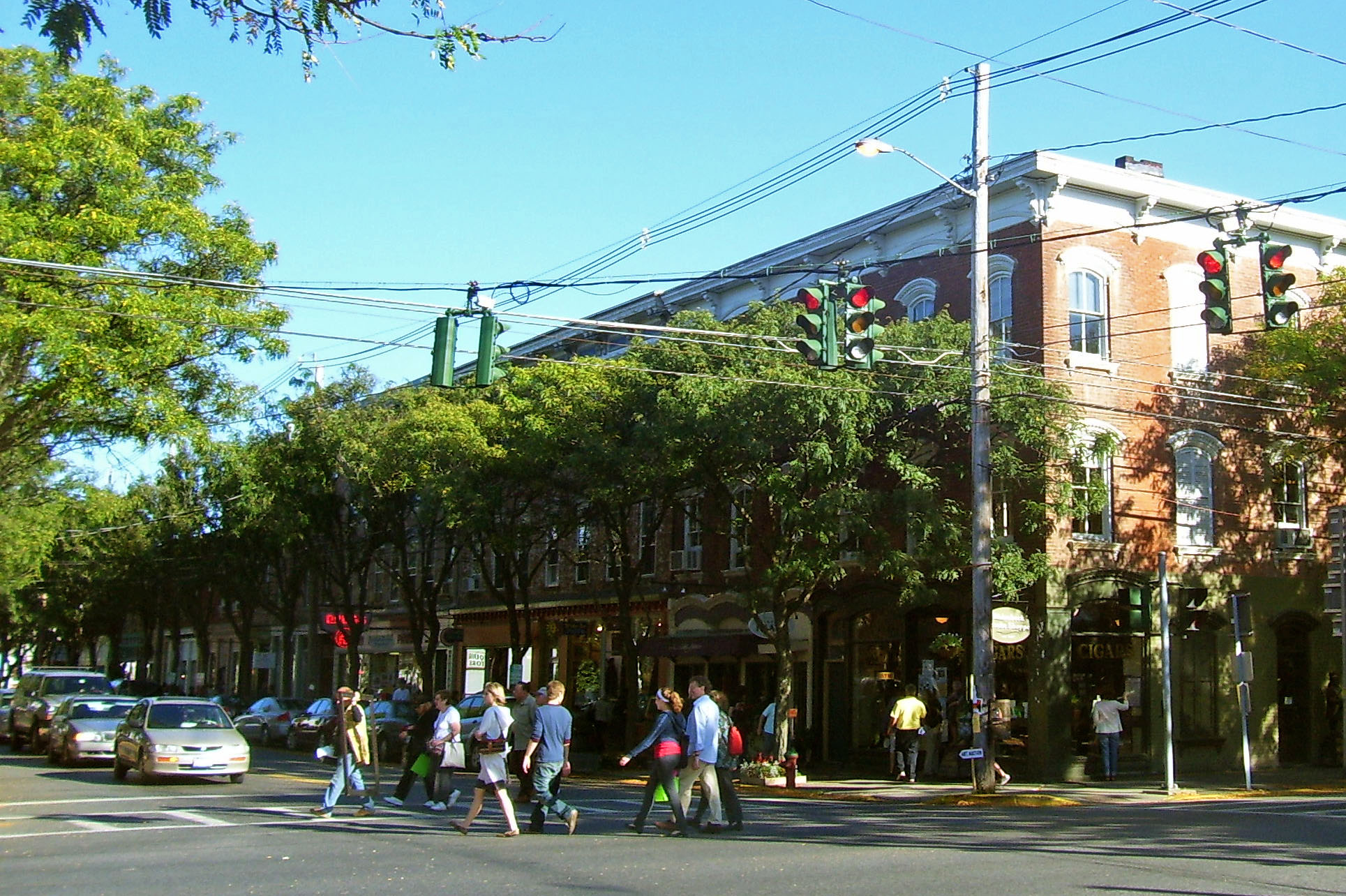 Junction of US 9 and NY 308, in downtown Rhinebeck, New York. Located within the Rhinebeck Village Historic District.